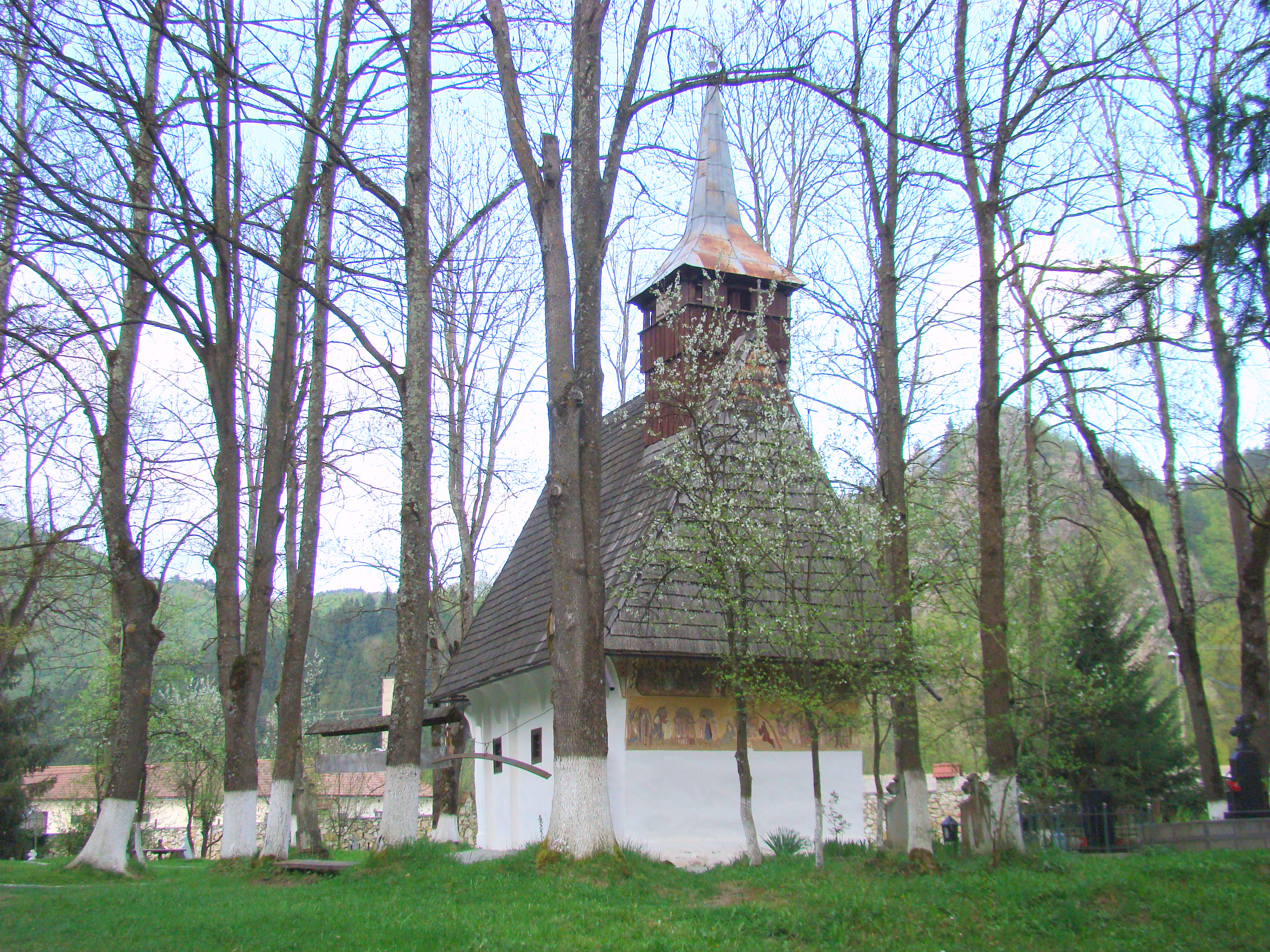 wooden church in the Lupșa Orthodox monastery, Apuseni Mountains, Romania